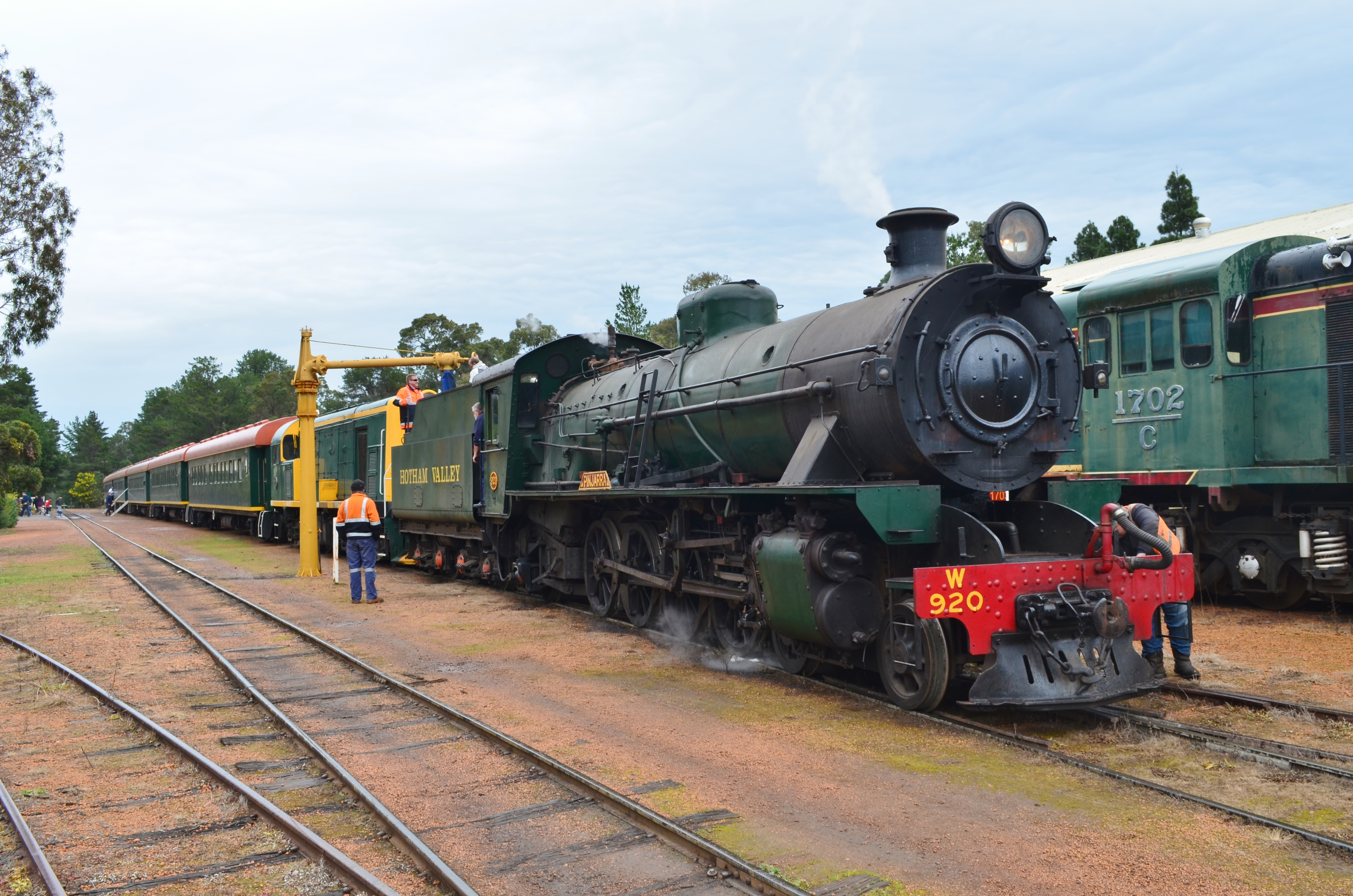 WAGR W class steam locomotive no. W920, MRWA F class diesel locomotive no. F50 and a Hotham Valley Railway steam ranger train at Dwellingup, Western Australia.